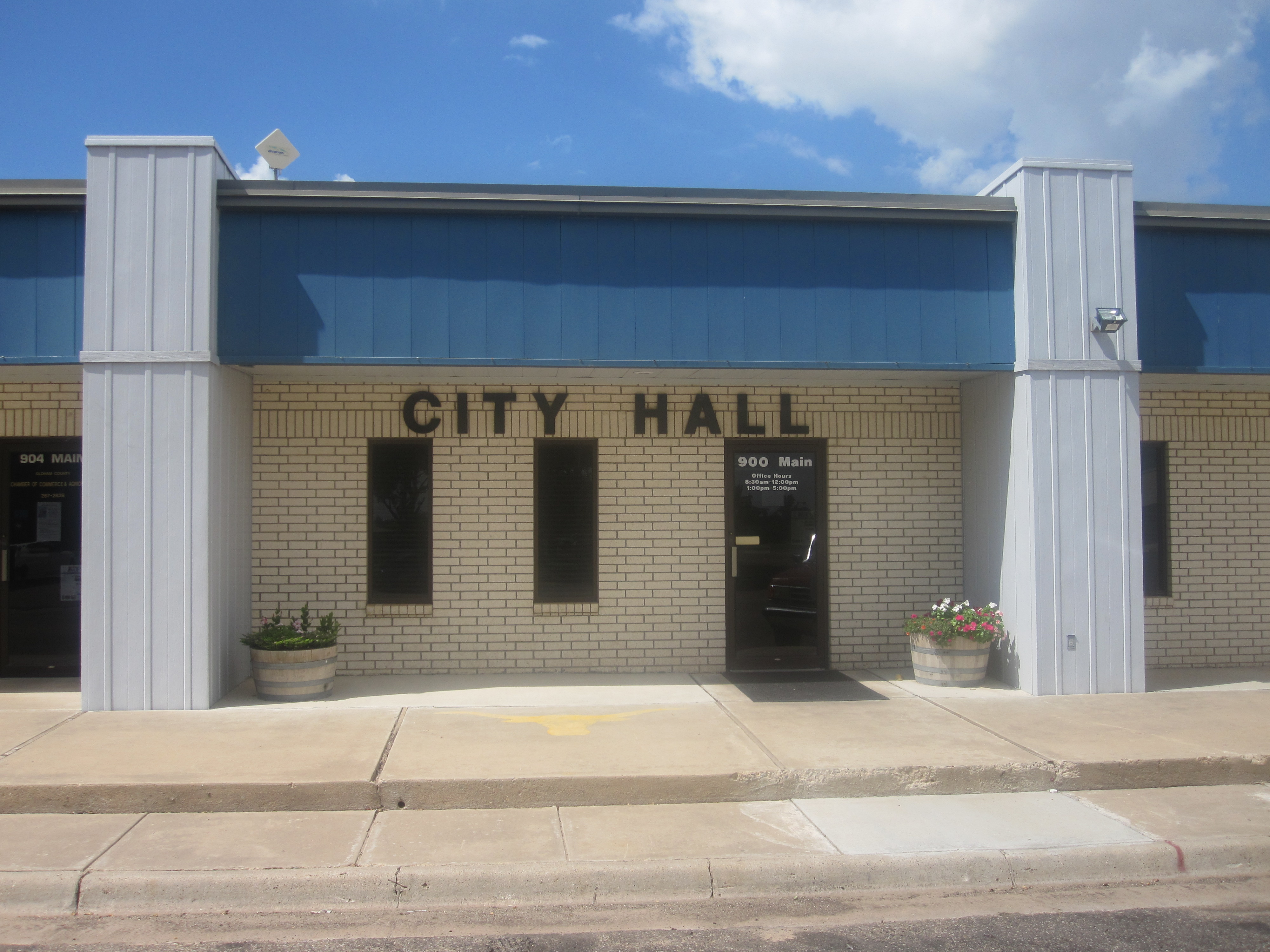 I took photo with Canon camera in Vega, TX.